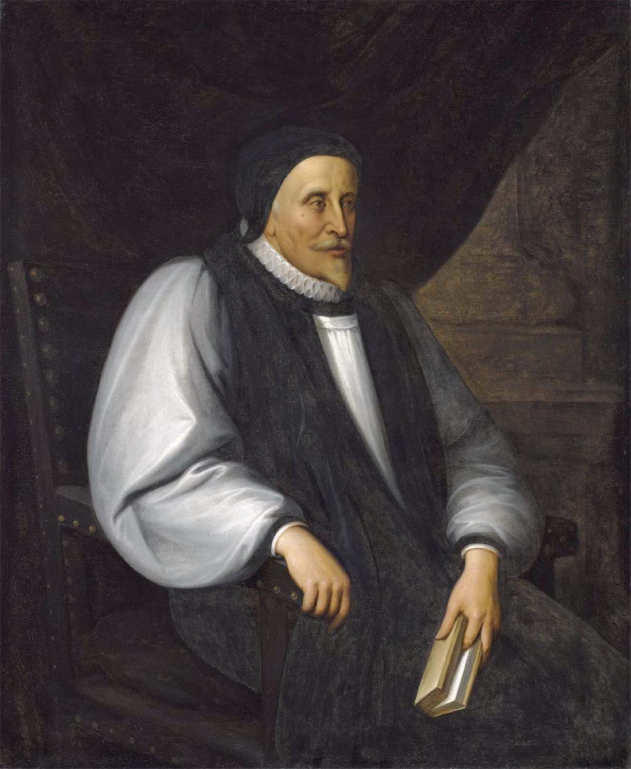 Sotheby's: The sitter was one of the foremost English scholars of his day, and a pre-eminent clergyman under both Elizabeth I and James I. He served consecutively as Bishop of Chichester, Ely and Winchester, and was formative in the creation of the King James Bible. According to Ingamells, this is a posthumous portrait from c. 1660, based on the prime portrait by Joseph Buckshorn at Pembroke College, Cambridge